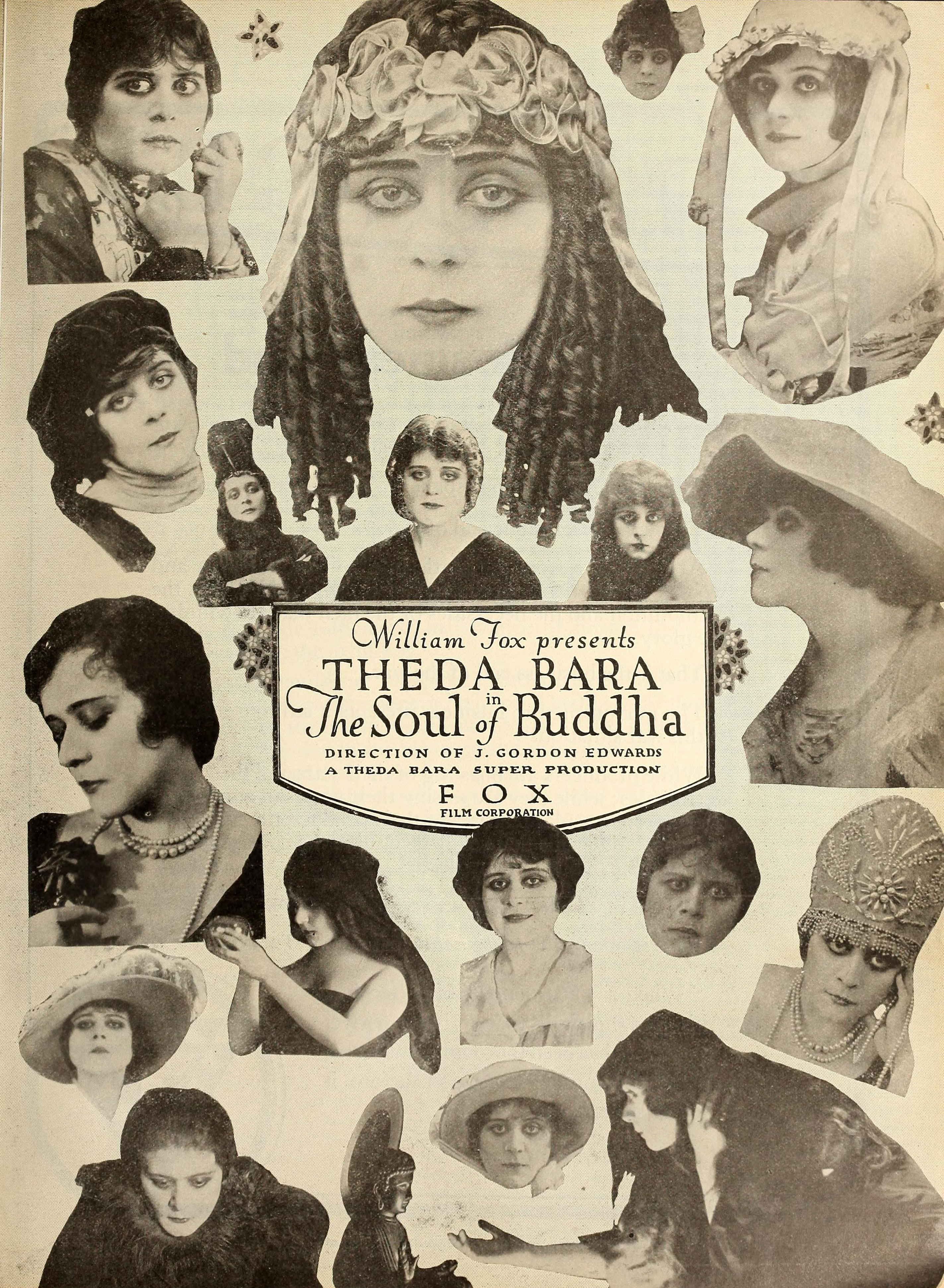 Advertisement in Motion Picture News for the American film The Soul of Buddha (1918).